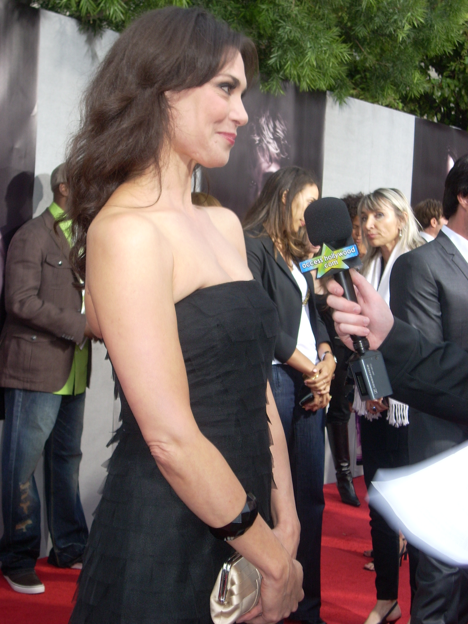 Michelle Forbes at the "True Blood" Season Two Premiere Party - Paramount Theater, Paramount Studios, Hollywood, Calif. - June 9, 2009